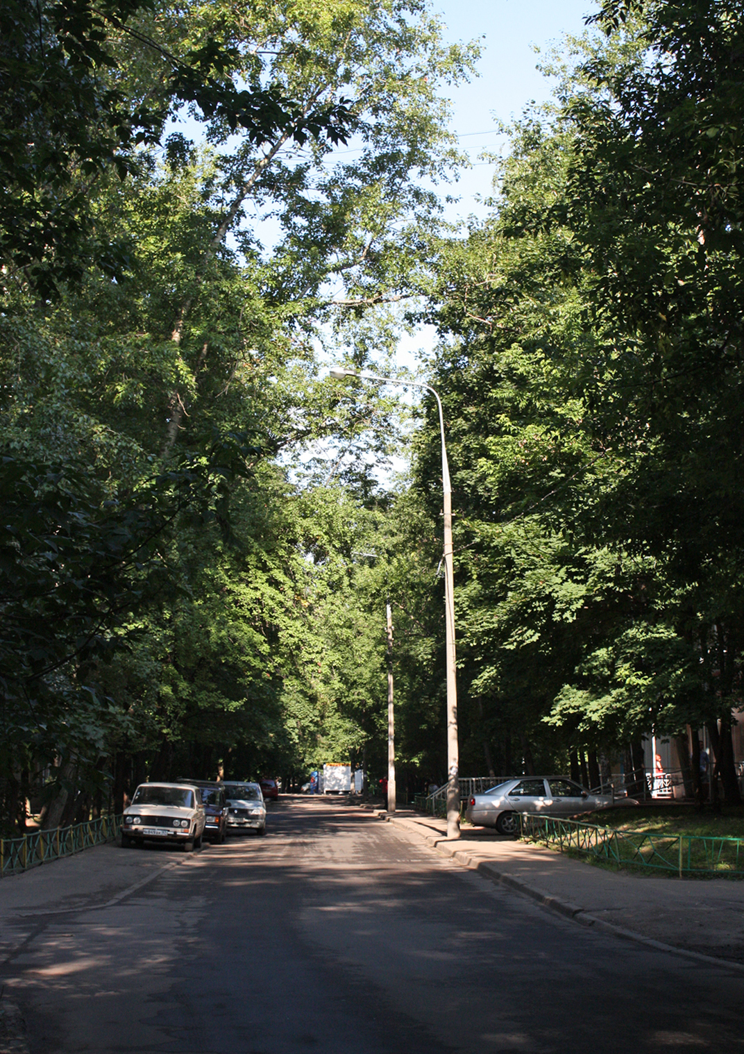 Moscow, Novohoroshyovsky passage. A view from houses 13 and 15